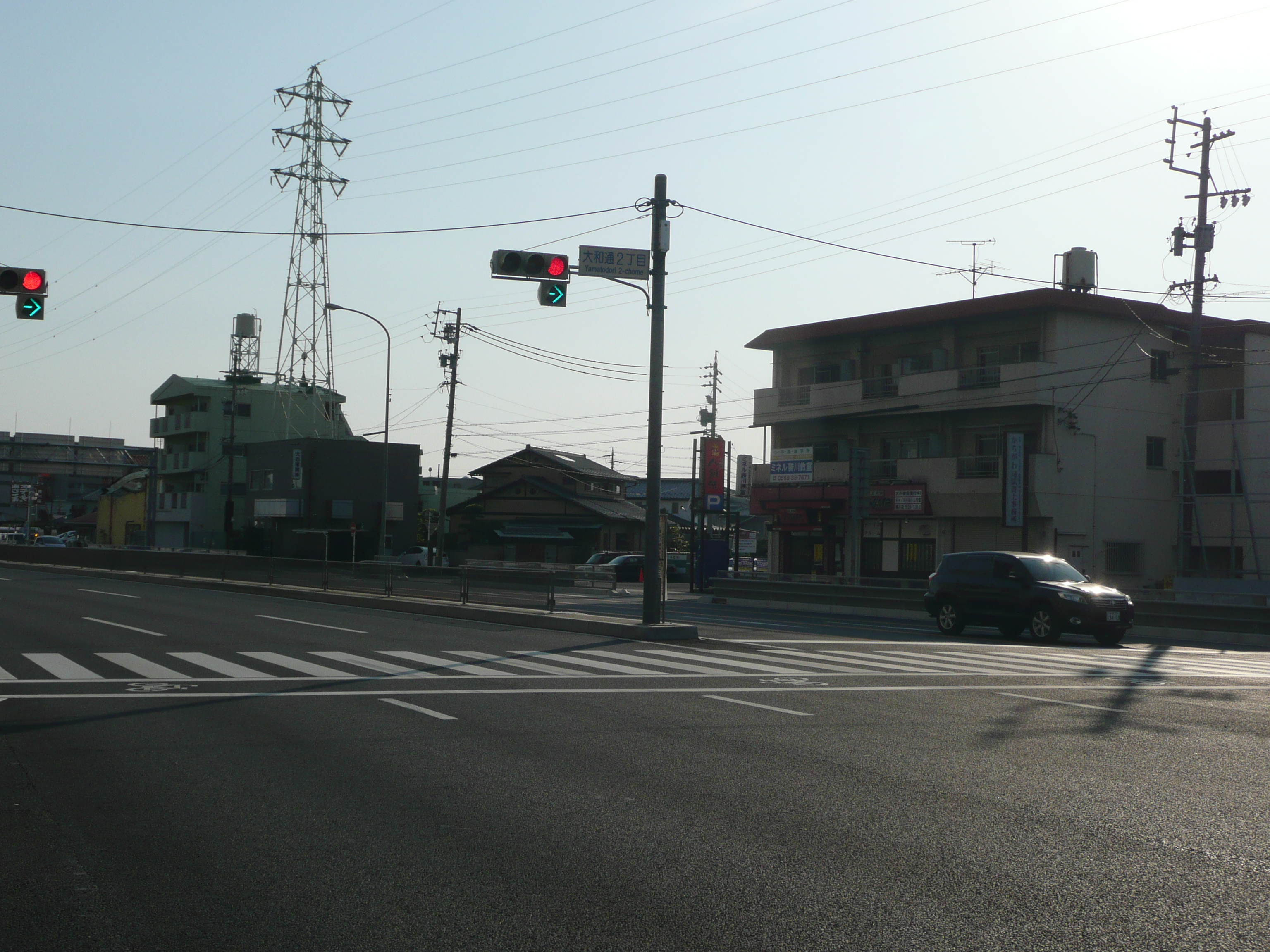 新勝川口駅の跡地